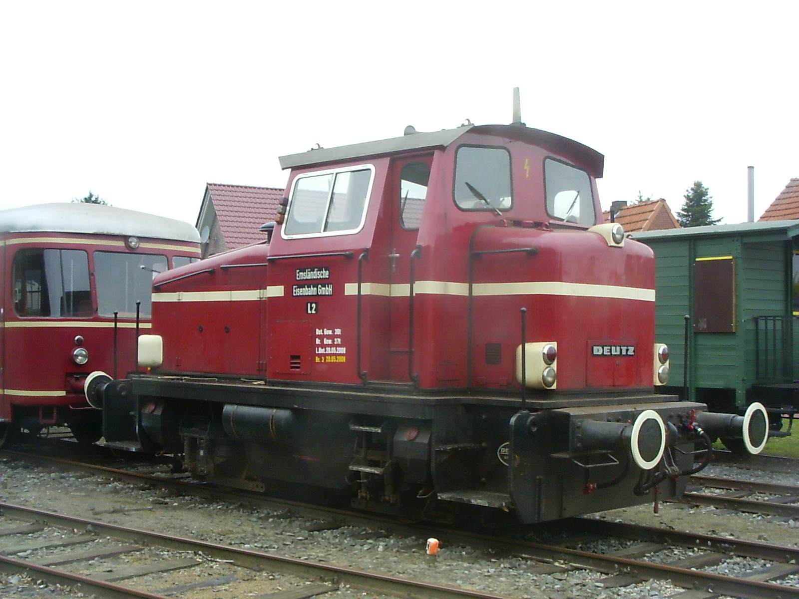 Werlte, Diesel locomotive